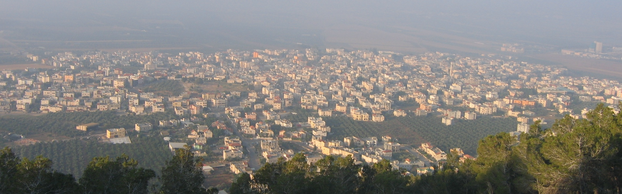 The village Iksal, in the Jezreel Valley, in Israel. Taken by Beny Shlevich on May 28th, 2006.